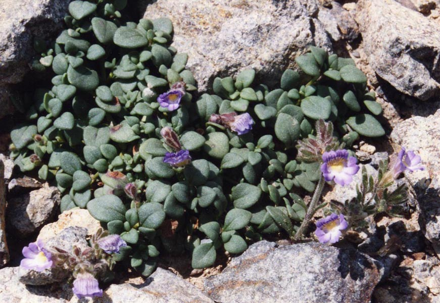 Chaenorhinum origanifolium' 'Blue Dream